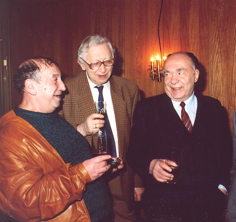 The Leonardo Prize Depicted persons (l-r) Вайнер, Аркадий Александрович Смыслов, Василий Васильевич Яковлев, Александр Николаевич